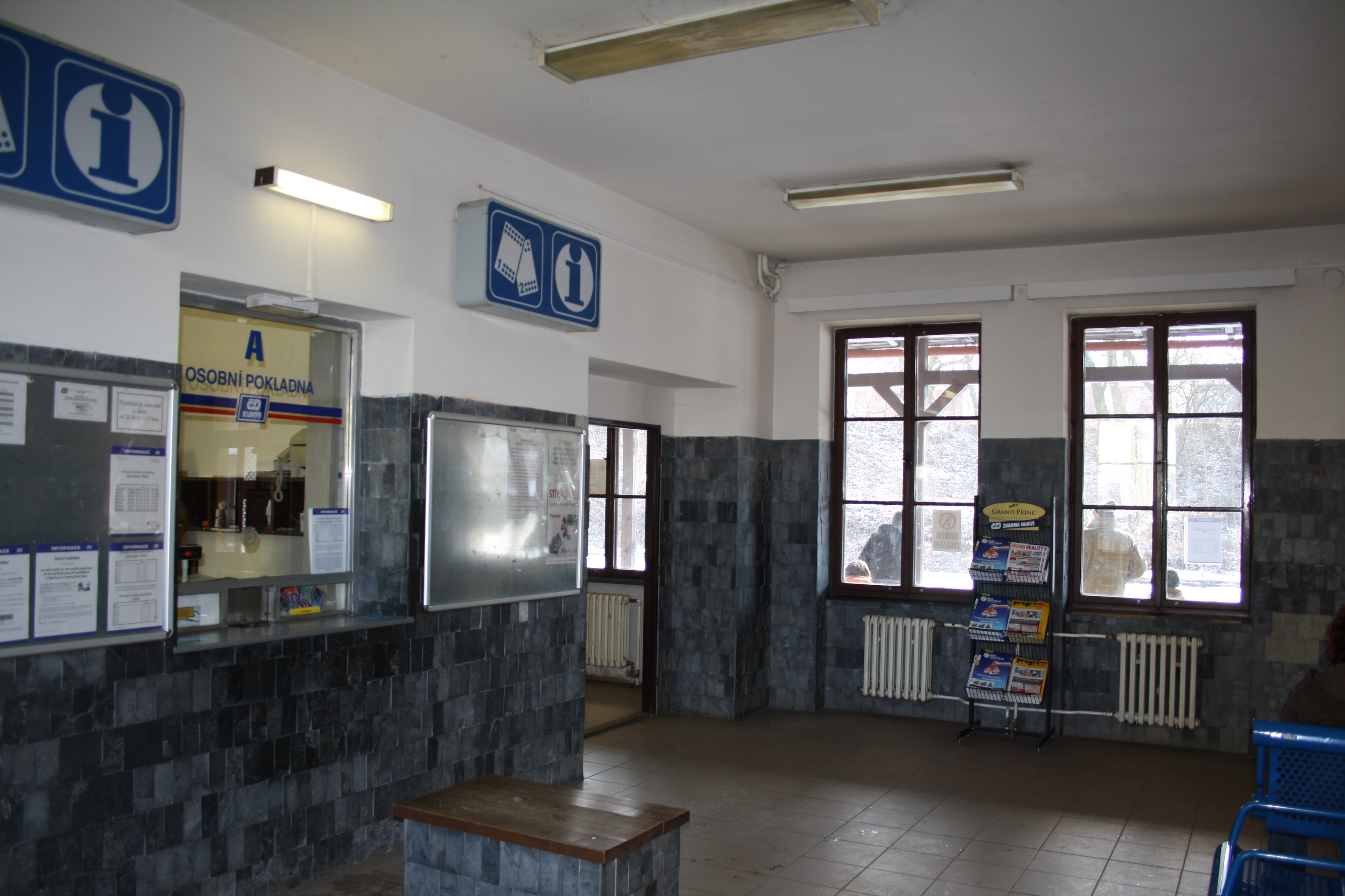 Interior of Třebíč train station.